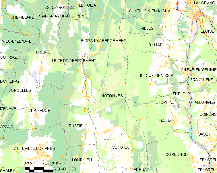 Map of French commune: Hotonnes Map commune FR insee code 01187.png